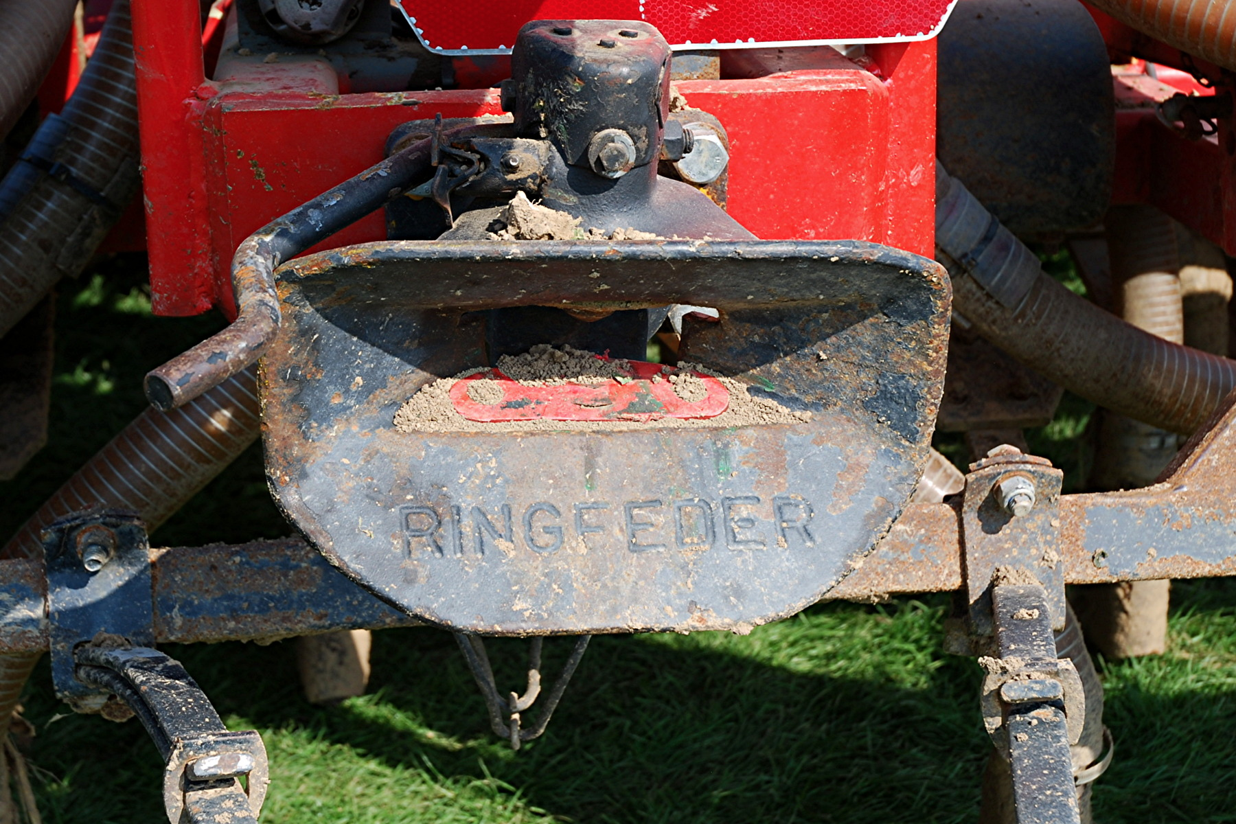 A Ringfeder bolt coupling on an Evers slurry injector; Werktuigendagen 2011, Oudenaarde, East Flanders, Belgium.